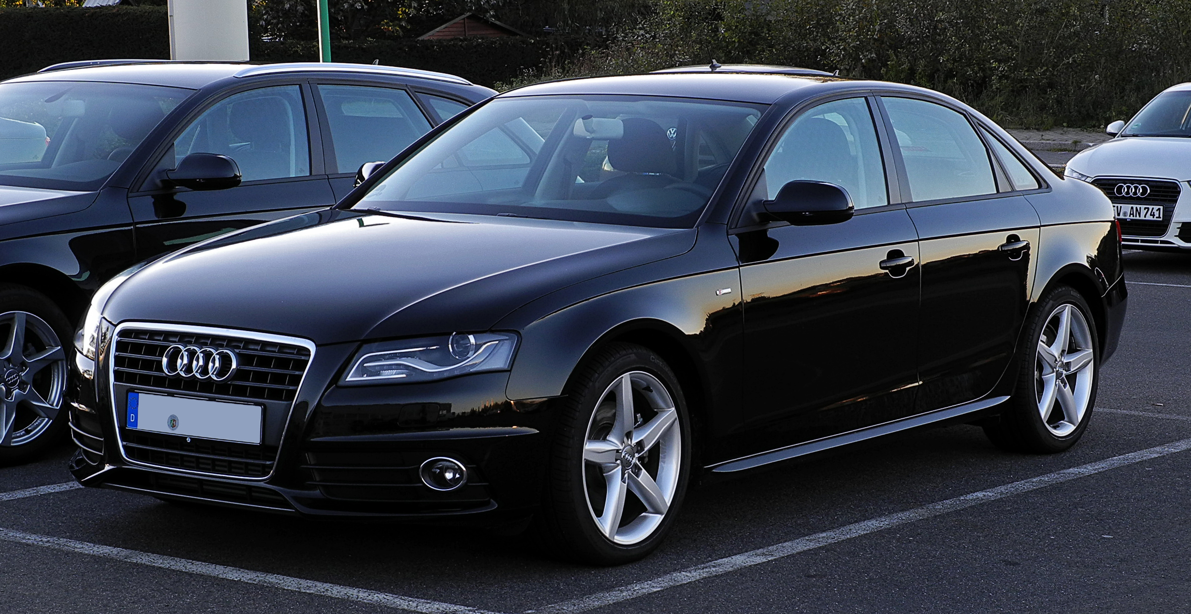 Audi A4 TFSI Ambition S-line (B8)